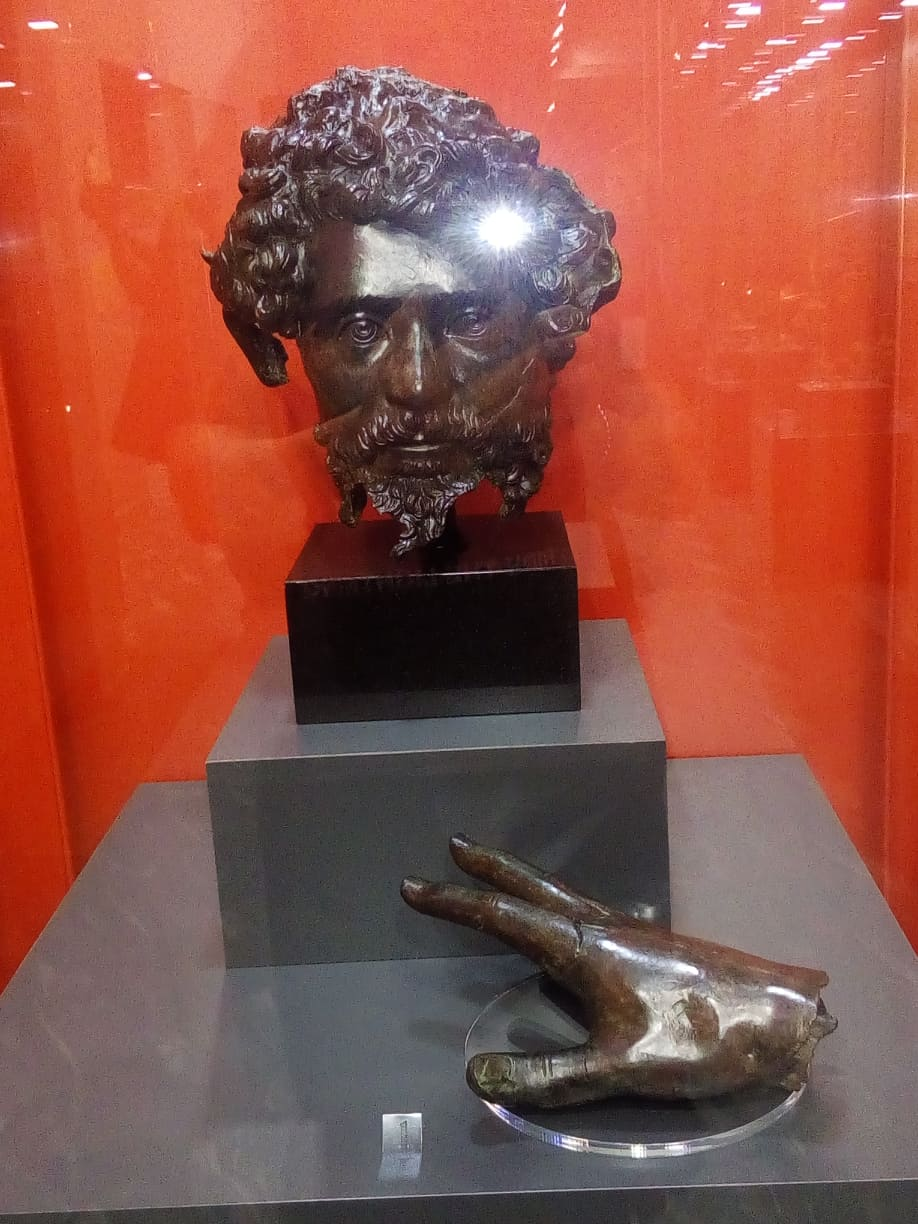 Roman town of Deultum, village of Debelt, Sredets Municipality, Burgas Province, Bulgaria